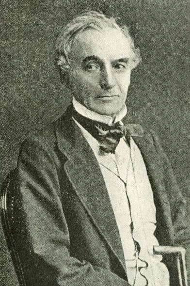 French writer Prosper Merimee, seated